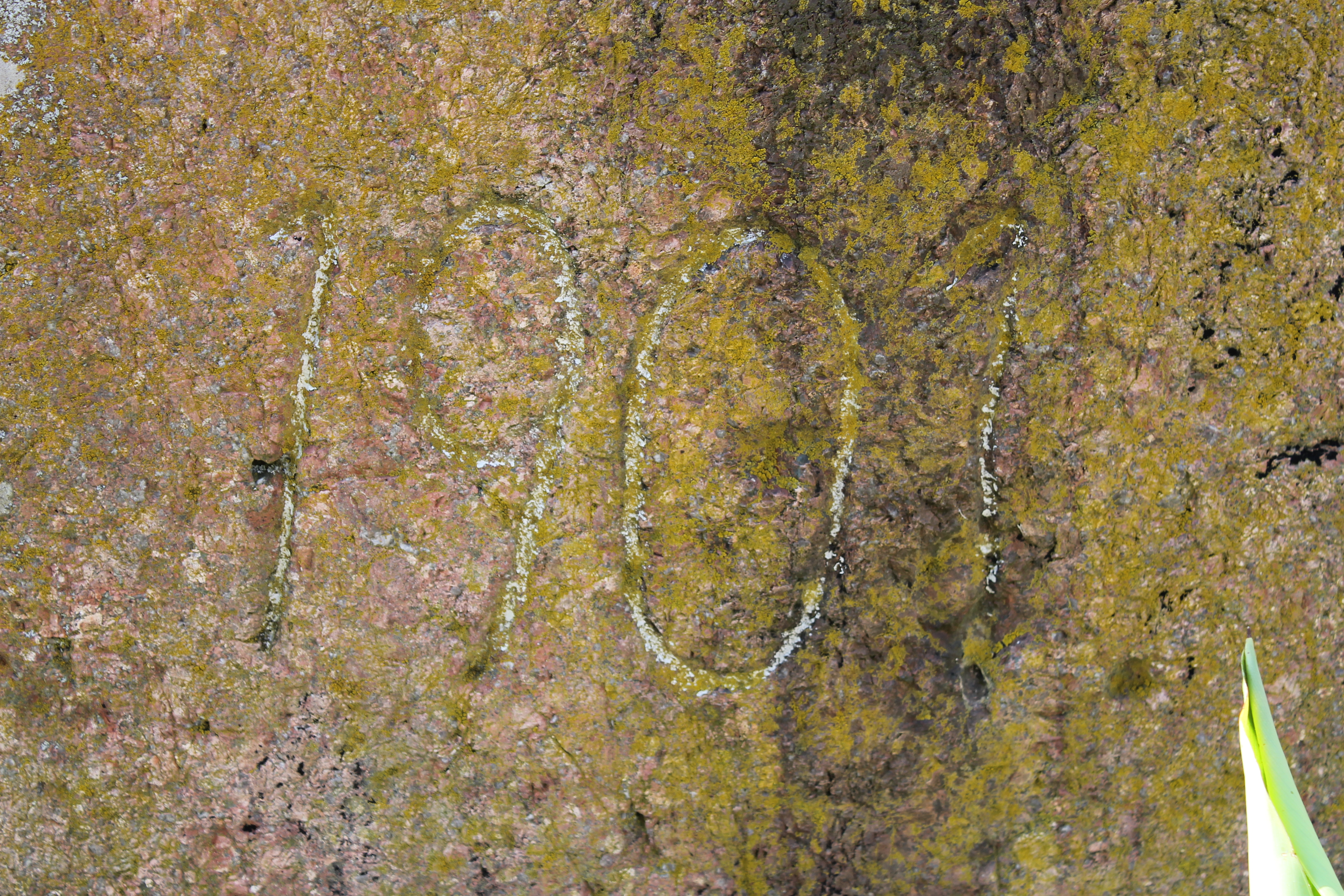 Jovaišiai Cross, Druskininkai municipality, Lithuania